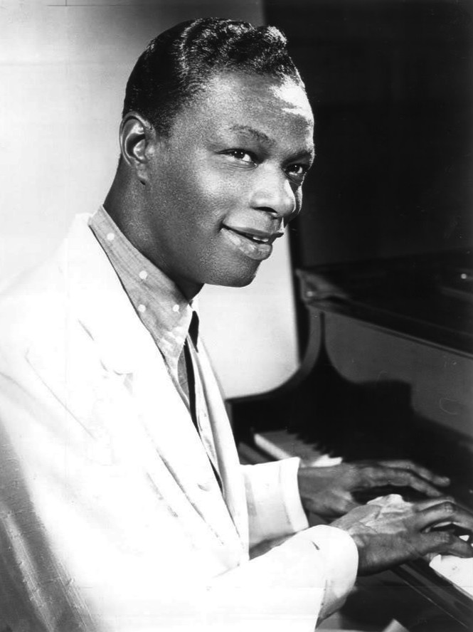 Publicity photo from the premiere of The Nat King Cole Show. Cole was the first African-American to host a program of this type.